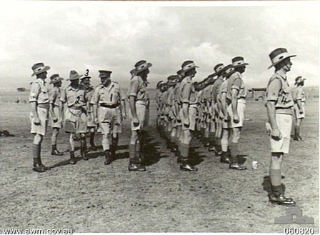 AWM Caption: KAIRI, QLD. 1943-11-22. VX289 BRIGADIER R. BIERWIRTH, OBE DEPUTY ADJUTANT AND QUARTERMASTER GENERAL, 1ST AUSTRALIAN CORPS (1), INSPECTING THE REFORMED 2/12TH AUSTRALIAN FIELD AMBULANCE. THE ORIGINAL UNIT SERVED IN DARWIN, IT LOST A COMPANY AT TIMOR AND ANOTHER AT AMBOINA, AND LATER LOST PRACTICALLY THE WHOLE UNIT WHEN THE CENTAUR WAS SUNK BY THE JAPANESE. ALSO SEEN ARE: QX6439 LIEUTENANT COLONEL N. H. MORGAN COMMANDING OFFICER 2/12TH AUSTRALIAN FIELD AMBULANCE (2); NX179 COLONEL E. A. COLEMAN, DEPUTY DIRECTOR OF STAFF AND TRANSPORT 1ST AUSTRALIAN CORPS (3); NX109290 WARRANT OFFICER CLASS 1 G. H. W. FULTON REGIMENTAL SERGEANT MAJOR, 2/12TH AUSTRALIAN FIELD AMBULANCE (4).